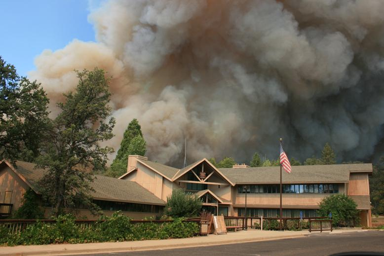 Rim Fire approaches the Groveland Ranger Station in the Stanislaus National Forest. The Rim Fire in the Stanislaus National Forest near in California began on Aug. 17, 2013 and is under investigation. The fire has consumed approximately 149, 780 acres and is 15% contained. U.S. Forest Service photo.